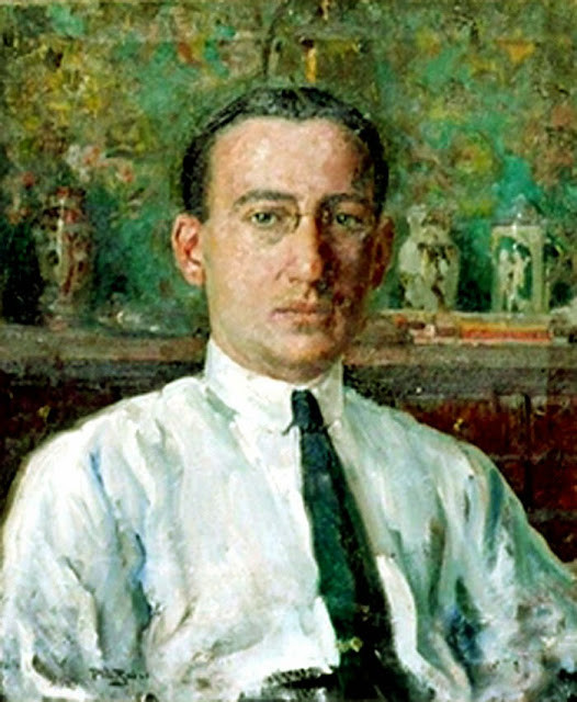 "Self-portrait", painted by Alberto Pla y Rubio. Oil on cardboard, Spain, circa 1910.